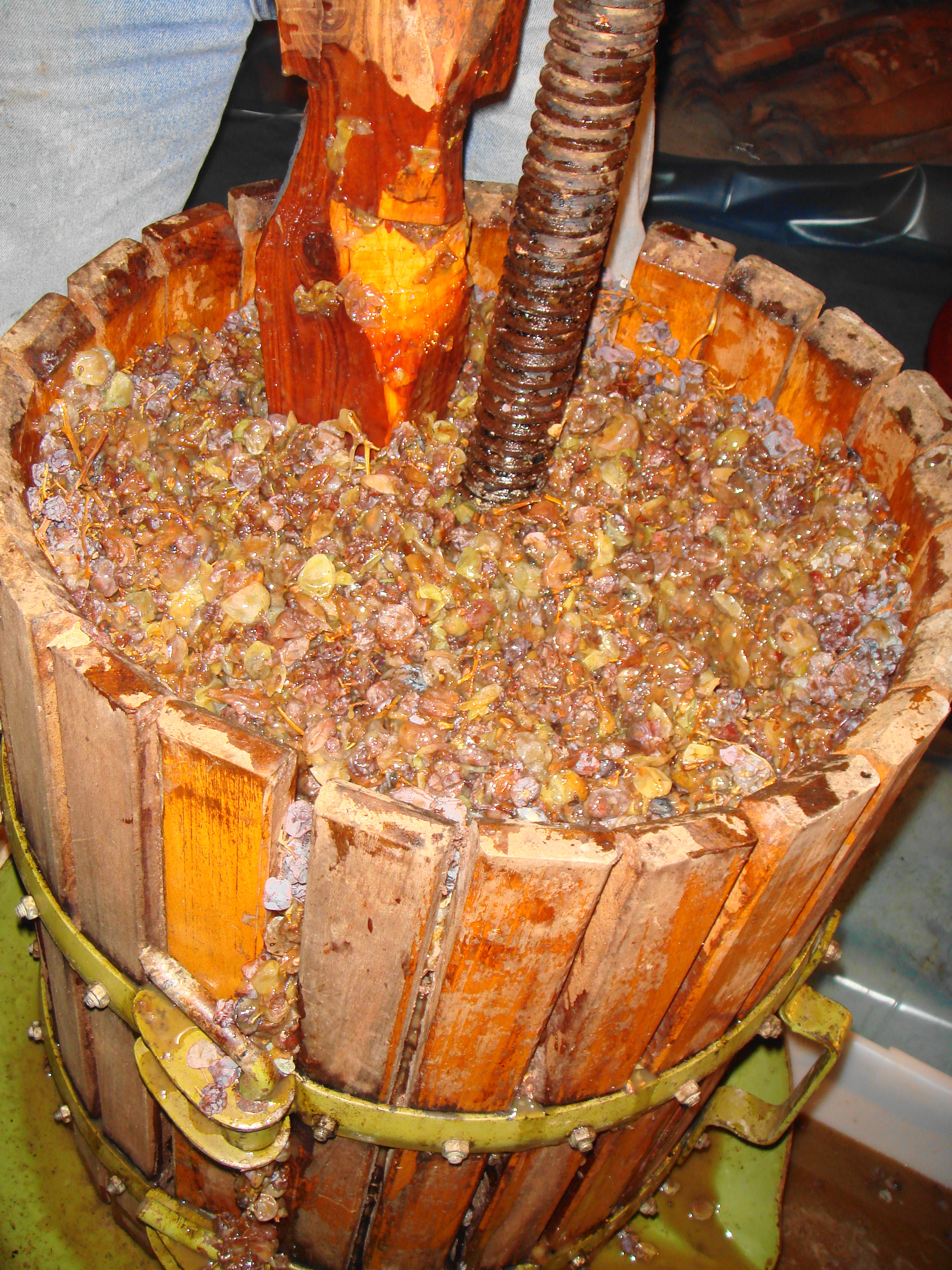 From author "In December is time to press white grapes "Trebbiano"to make a sweet wine Vin Santo to save in the barrels for 4 years."